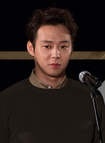 Yoochun at Busan International Film Festival "Sea Fog" outdoor stage greeting, 3 October 2014